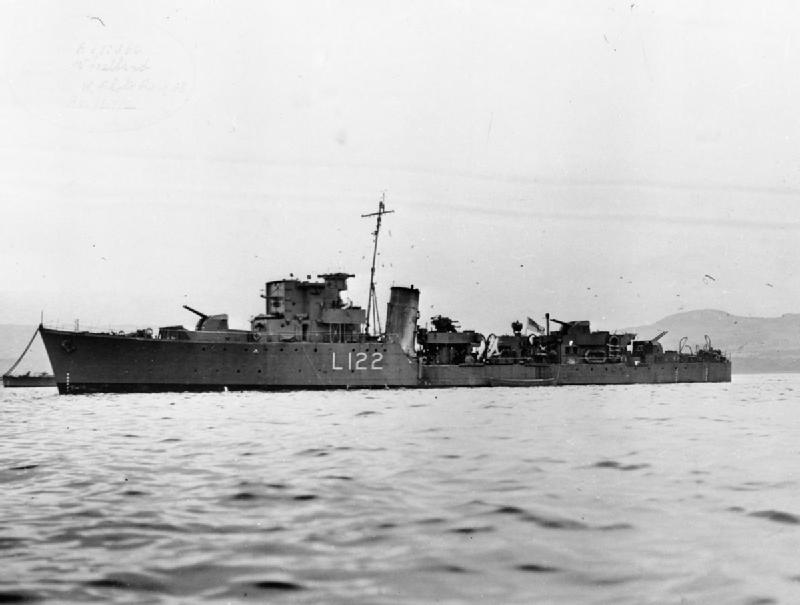 Photograph of British Hunt class destroyer HMS Wheatland.